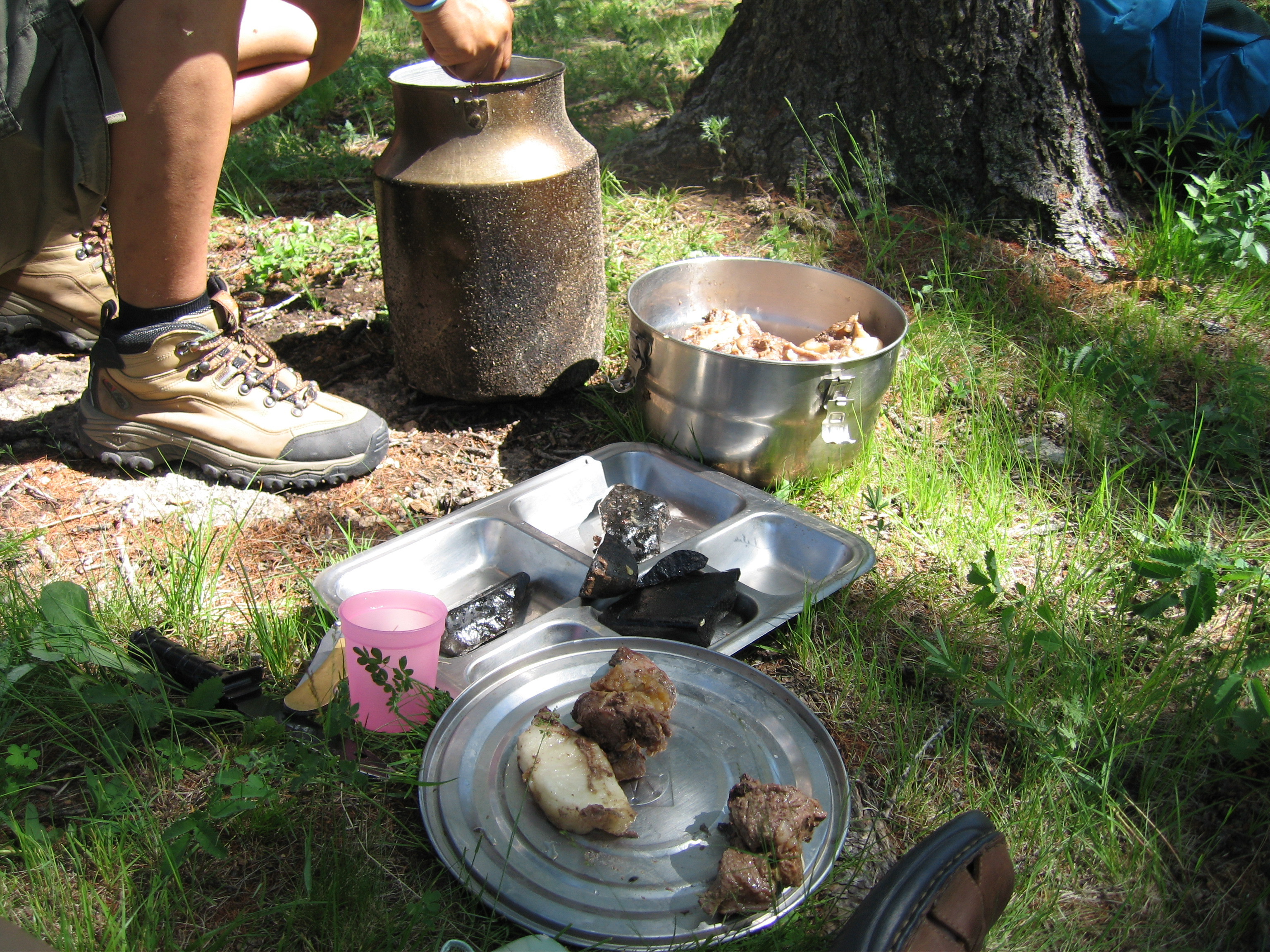 Khorkhog, a barbecued meat dish popular in Mongolia